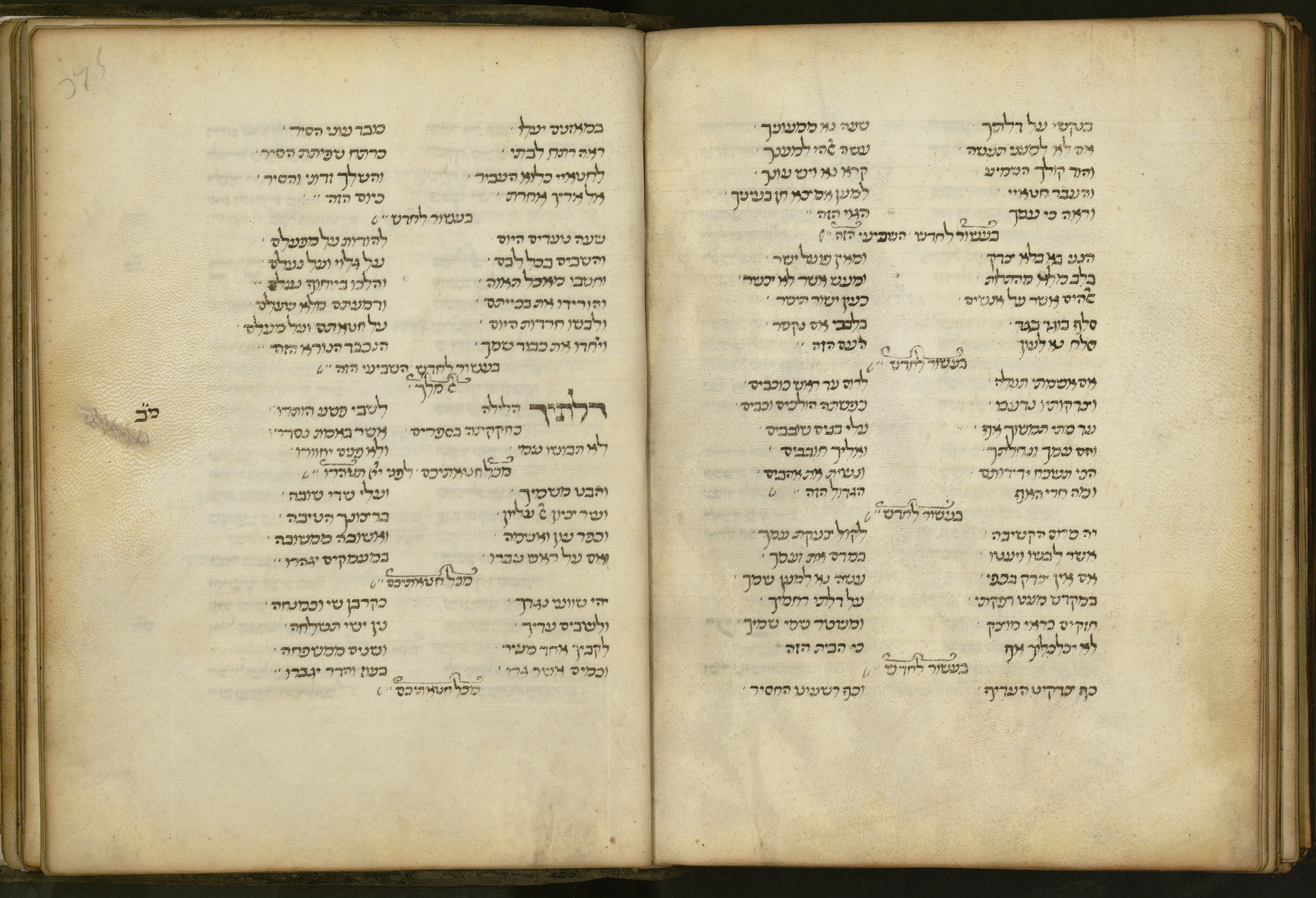 A Jewish Prayer book- Machzor Roma